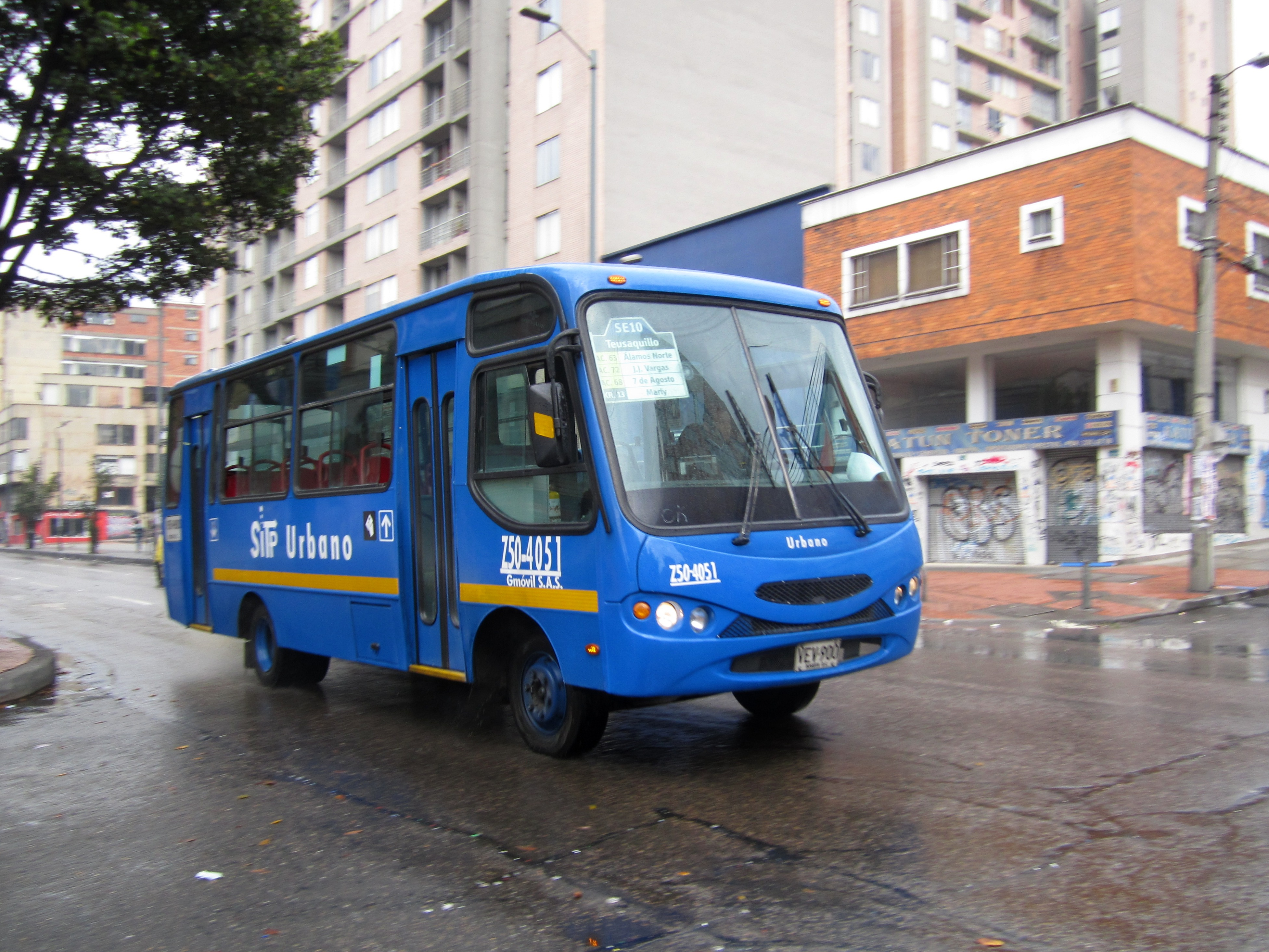 Bogotá